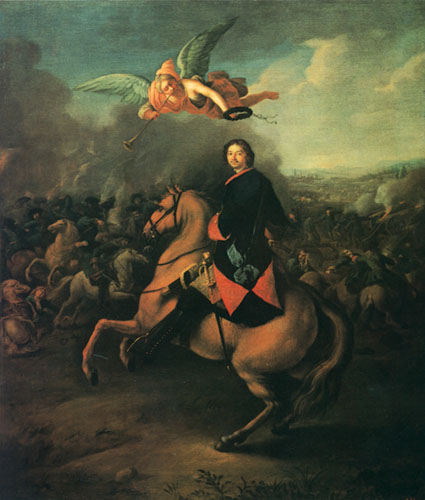 Peter I is portrayed in the uniform of Preobrazhensky Regiment with the insignia of Order of St. Andrew; winged Nike crowns Peter the Great with laurels. The painting had been dated to 1710s. The today's more accurate dating (1998, the Catalogue of Russian Museum) is 1724 or the beginning of 1725.